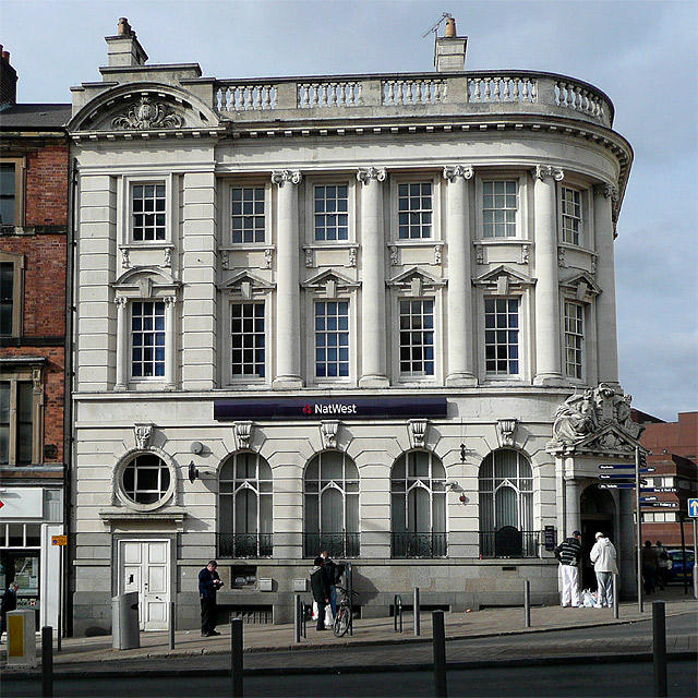 National Westminster Bank, Wolverhampton. This building was erected by the National Provincial Bank Ltd in 1914, in Edwardian Baroque style. The date shown on the decorative stonework across the main entrance (1833) refers to the founding of the National Provincial Bank, not the date of the building. 1181186 A plaque forms part of the cast iron railings around the present NatWest bank in Queen Square. 1171362 The County of Stafford Bank opened in Bilston in 1836 as Bilston District Banking Co. The bank moved in to Wolverhampton in 1843. It issued its own notes until 1881. The bank assumed limited liability in 1873 as County of Stafford Bank Ltd. In 1899 the bank was wound up and its business sold to National Provincial Bank of England Ltd (established 1833) of London. In 1968 the National Provincial Bank was merged with the Westminster bank, adopting the National Westminster Bank name in 1970. By 2000 the National Westminster Bank merged with the Royal Bank of Scotland, but they continued trading under their own names, though recently they prefer the "trendier" NATWEST! How clever they are!!! And what a financial mess they are in now!!!